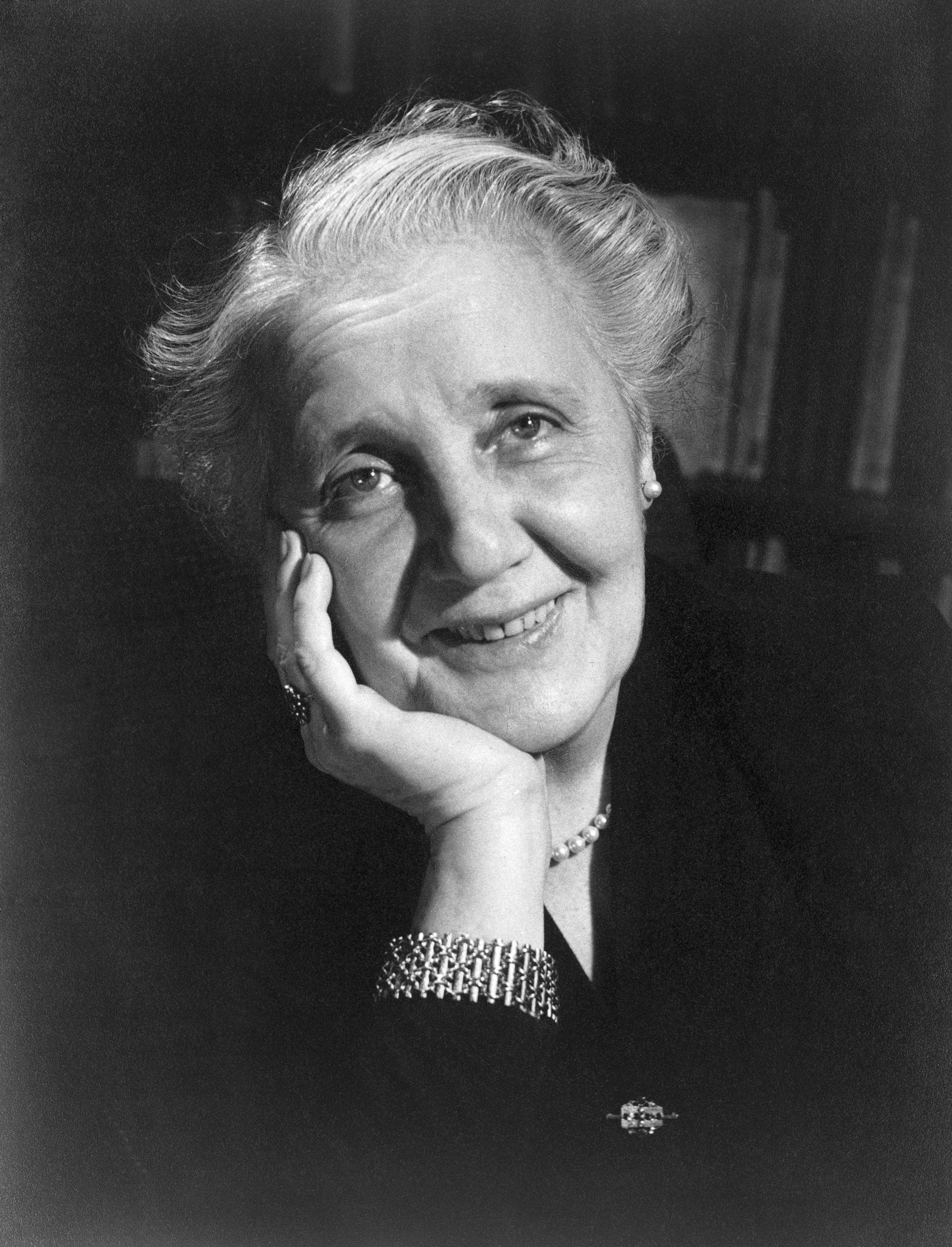 Portrait of Melanie Klein, bust, frontal, hand under chin smiling. Archives & Manuscripts Keywords: cmac; cmac: pp/kle; cmac: pp/kle/a.100a; Portraits; Melanie Klein; Douglas Glass